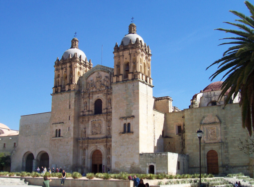 Photo by Duane Frasier. Photo may be freely used. Category:Images of Mexico